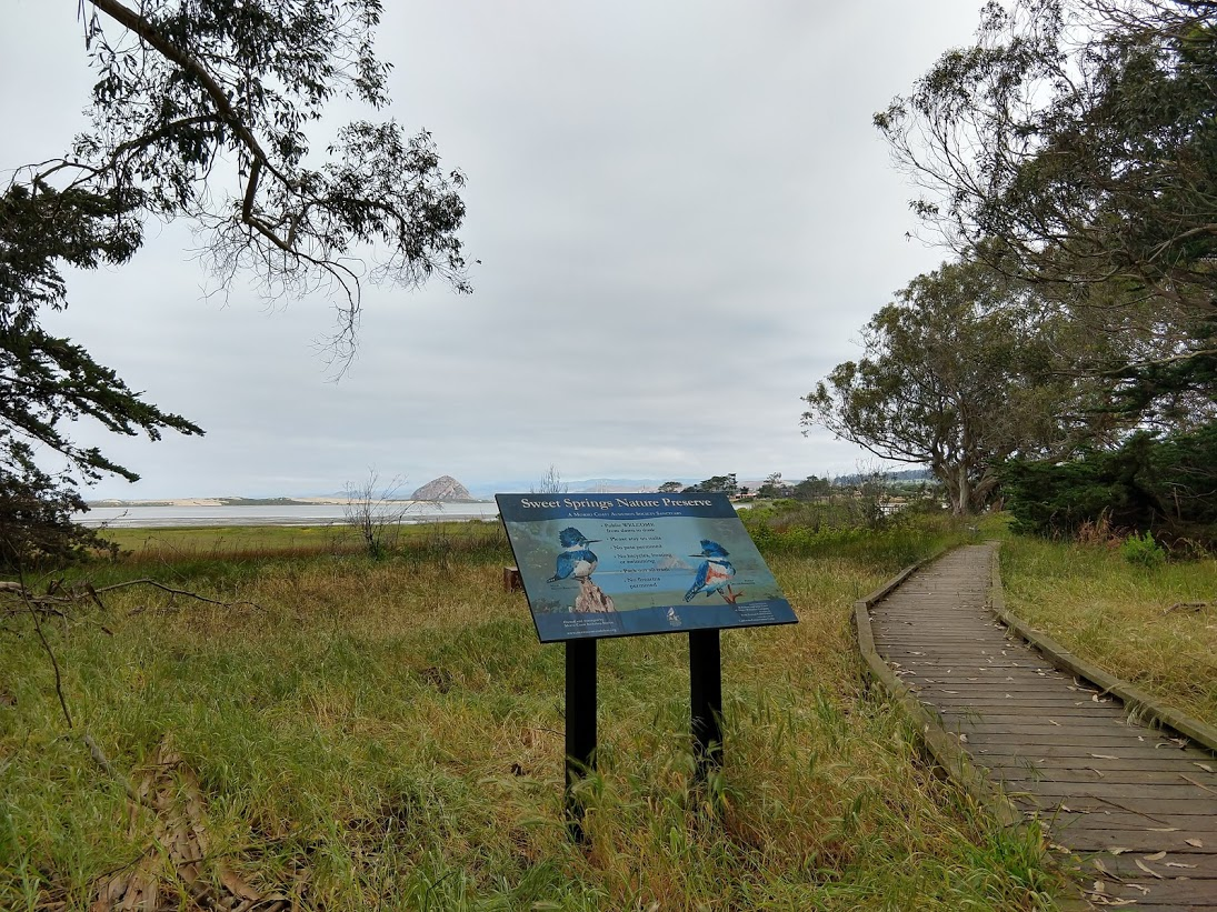 Sweet Spring Nature Preserve, looking towards Morro Rock. Photo taken May 2019.